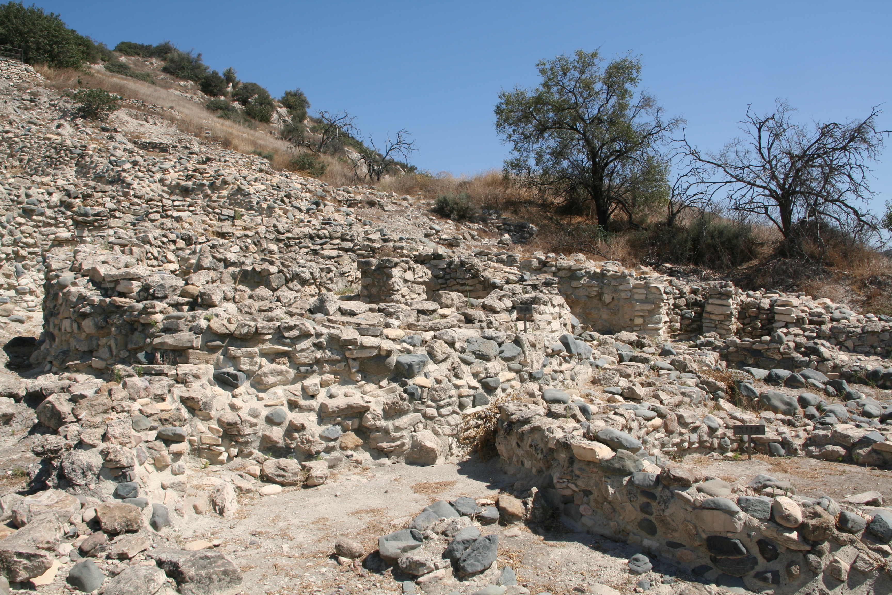 Unit IA and XIIA Khirokitia, between 7000 and 5800 BC